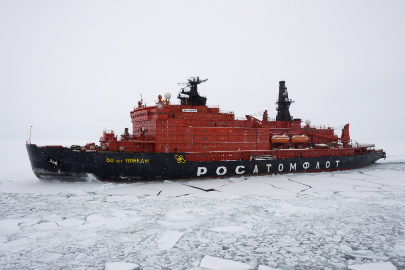 Nuclear-powered icebreaker 50 Let Pobedy